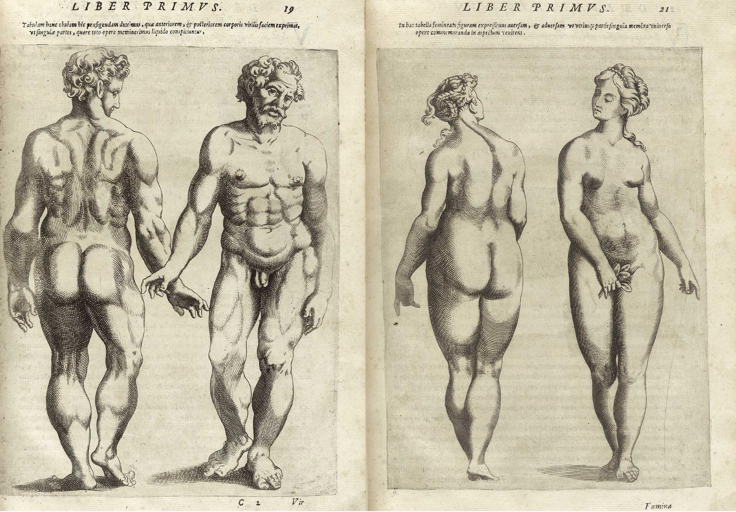 Giambattista della Porta, De humana physiognomonia, 1586